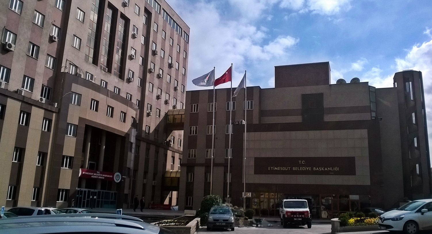 Etimesgut Municipal Building